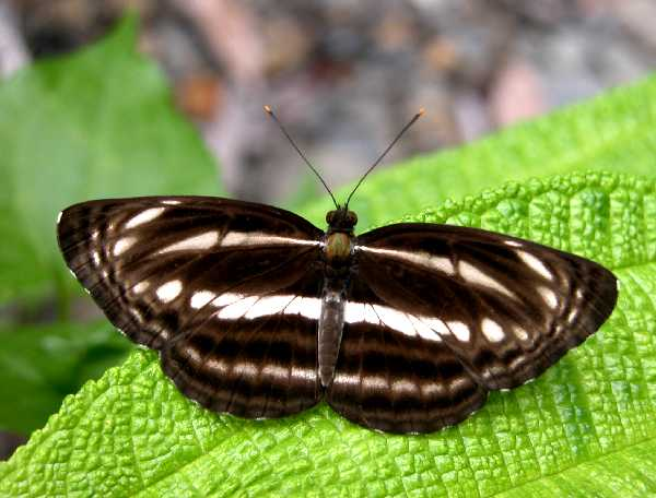 Sullied Sailor, Neptis soma taken at Jairampur, Arunachal Pardesh, India.